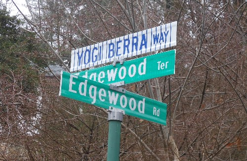 This is the street sign where Yogi Berra lived in Montclair, NJ. The street is a loop that winds up where it started so it doesn't matter if you go to the left or right, Yogi's house was around the bend.